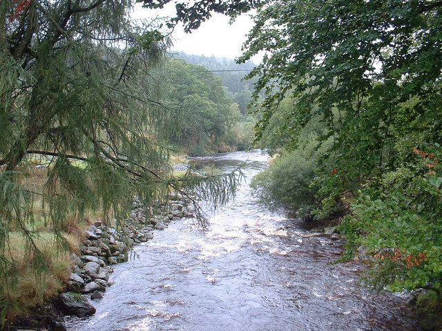 Afon Mawddach. Taken from Pont Aber-Geirw. The house called Abergeirw Mawr is hidden by the tree on the left.